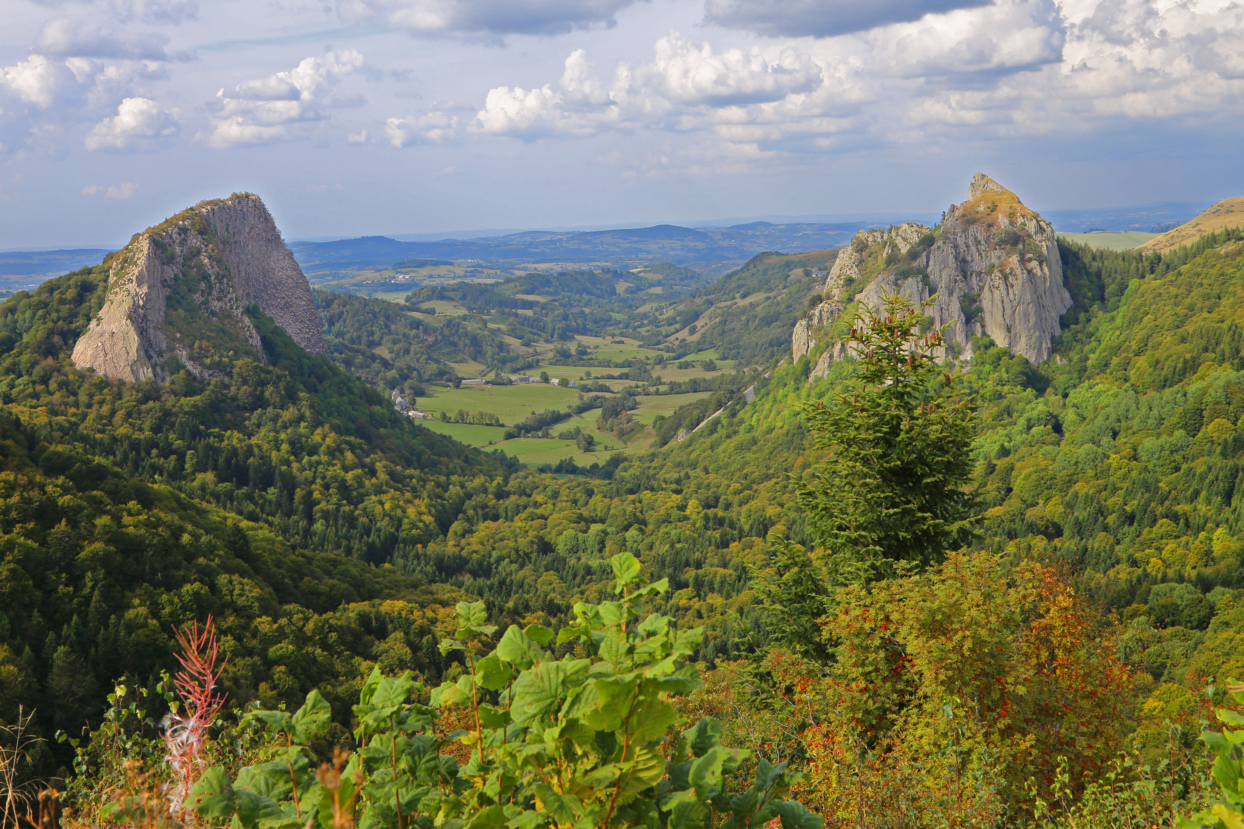 View of the rock formations "Roches Tuillére" and "Roche Sanadoire" from the pass "Col de Guéry" in the Massif des Monts Dore (La monta massivo Monts-Dore).